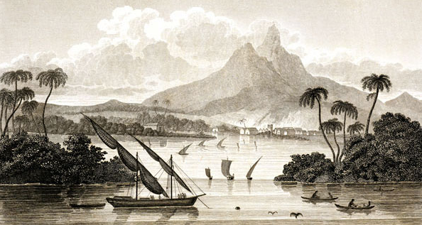 Engraving from "Sketch of the Mosquito Shore" purporting to depict the Port of Black River in the non-existent Territory of Poyais